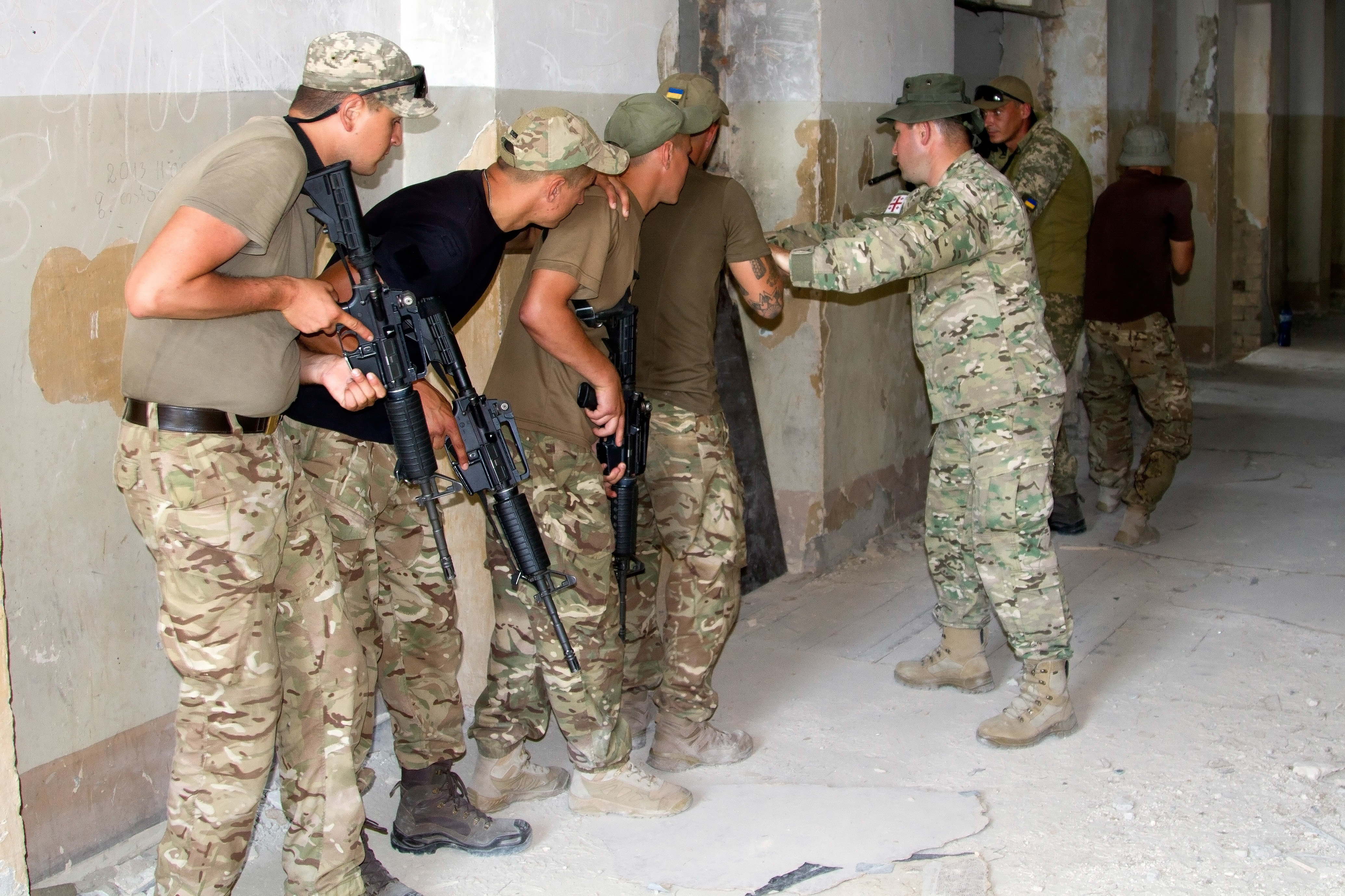 A Republic of Georgia special operations soldier (center right) instructs Ukrainian infantrymen on room-clearing techniques Aug. 3, 2017, in Vaziani training area, Georgia during exercise Noble Partner. Noble Partner is an annual U.S. Army Europe-led exercise designed to support Georgia’s integration into the NATO Response Force and allows multinational partners to work together in a realistic and challenging training event.